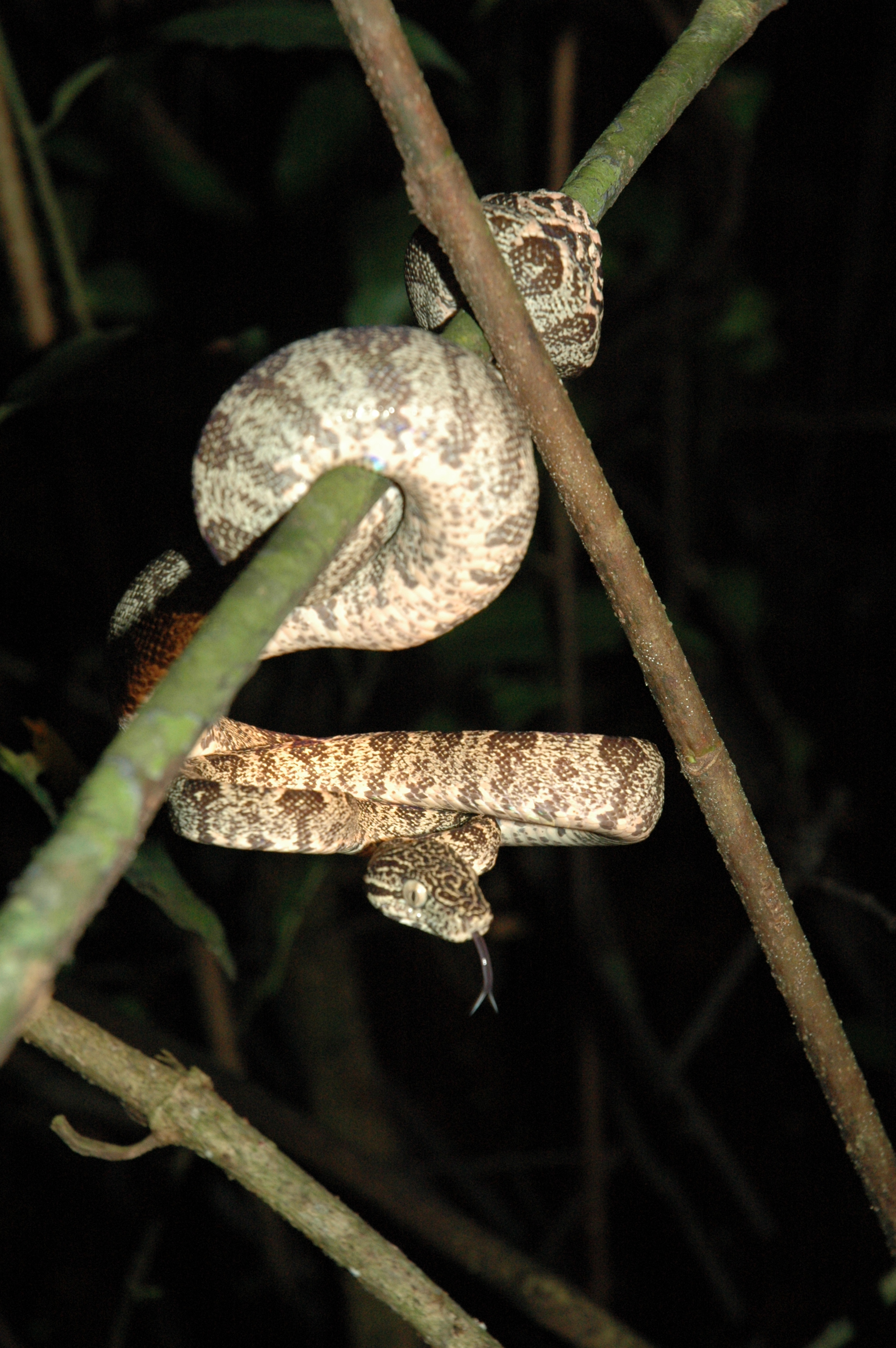 Amazon Tree Boa, Corallus Horticulus Author: Christopher Murray Tambopata, Peru